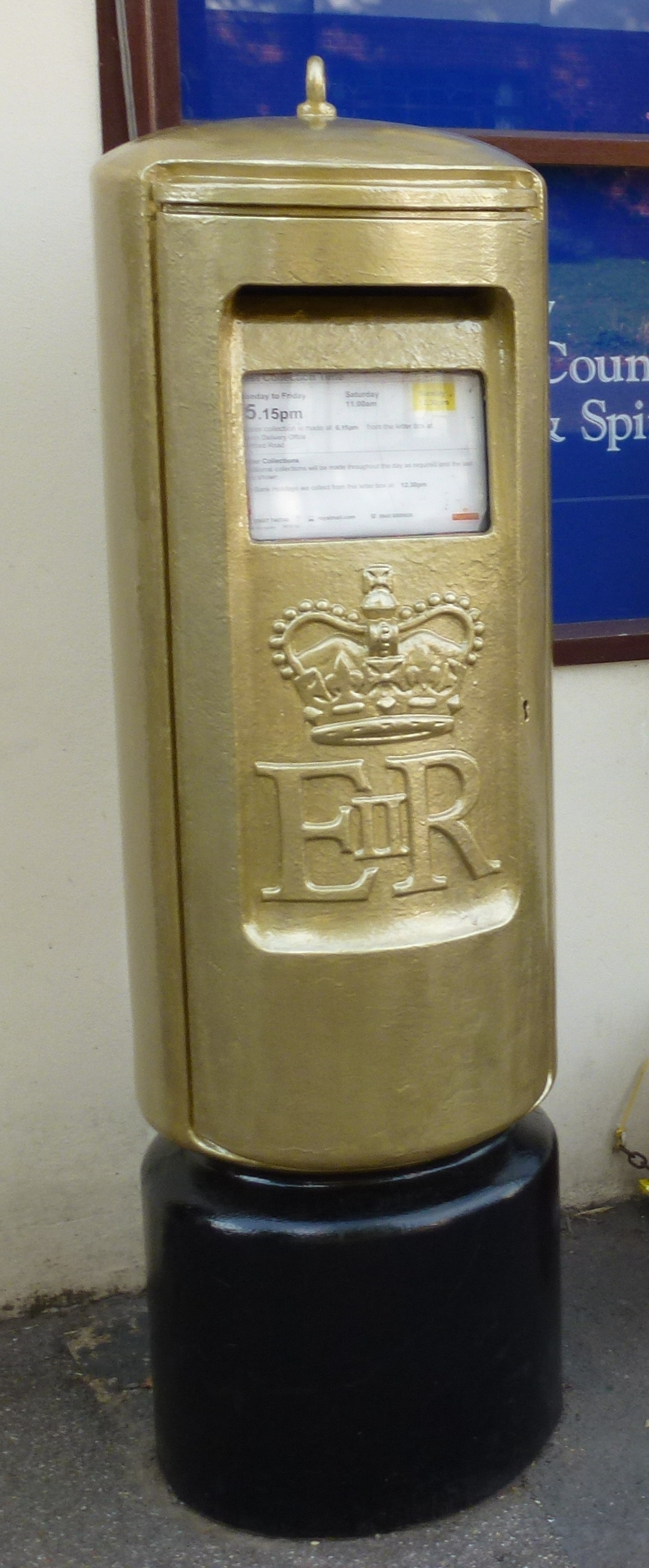 Gold postbox for Jonnie Peacock in Doddington, near to Doddington, Cambridgeshire, Great Britain.